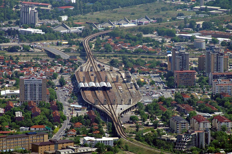 Skopje Train Station, Republic of Macedonia, as seen from the slopes of Mount Vodno